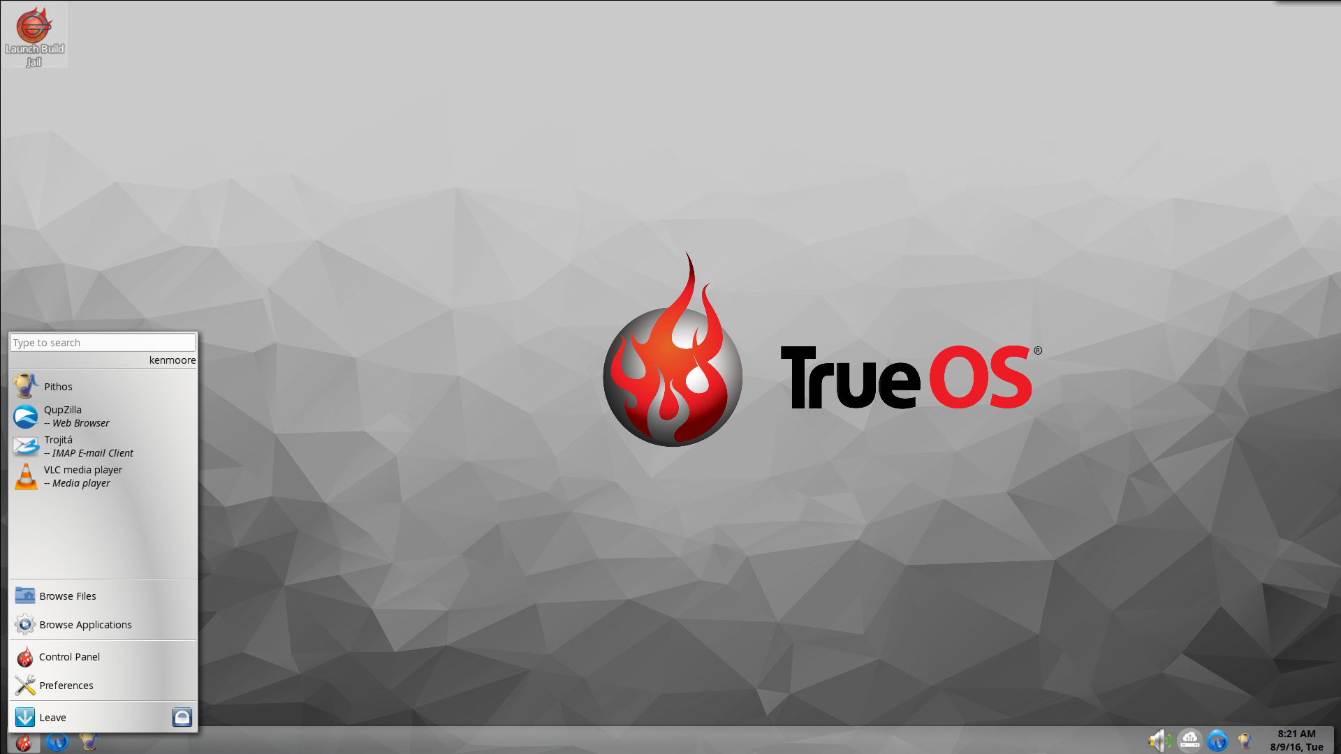 Screenshot which shows Lumina Desktop in TrueOS system